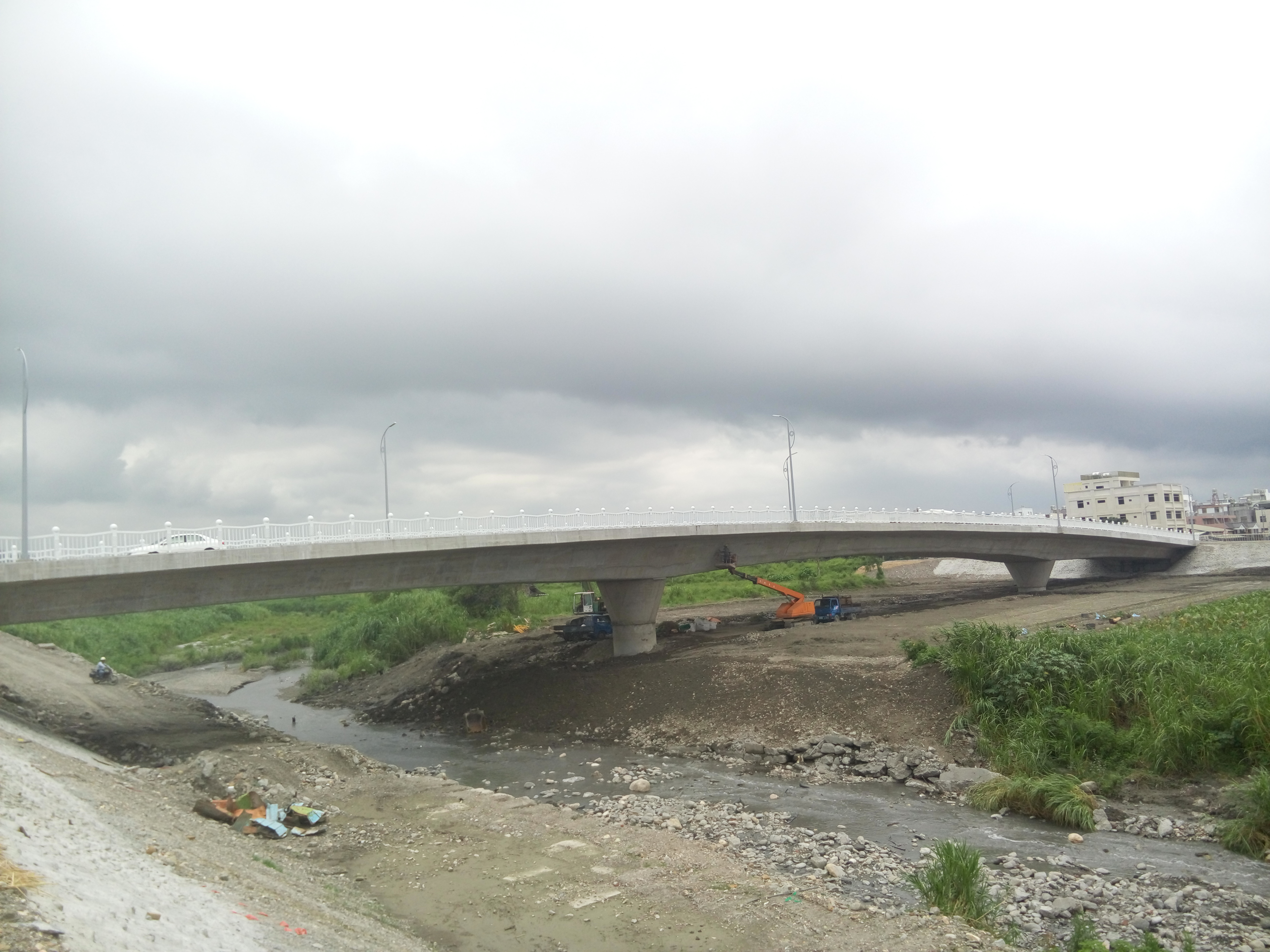 Taiwan Taitung City,The new Kai-Feng Bridge. It was completed on June 2015.